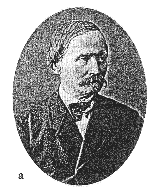 Portrait of Giovanni Zanardini (1804-1878), an Italian physician and botanist